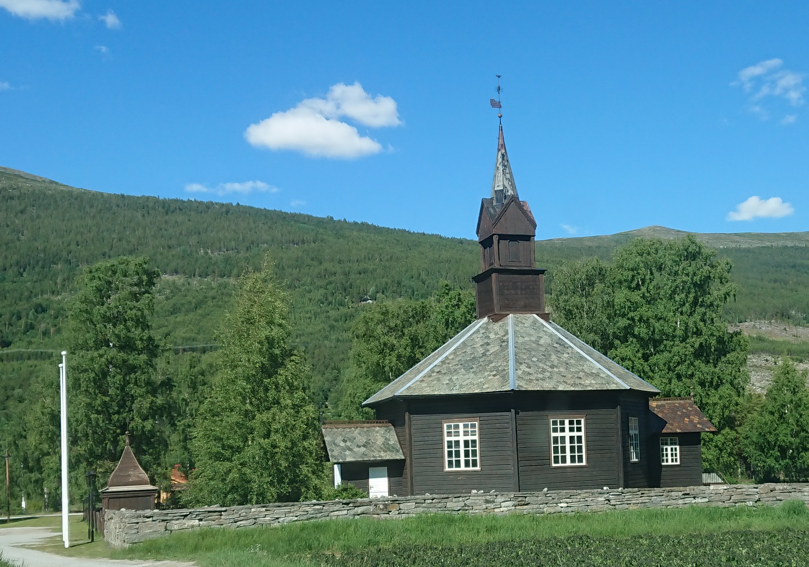 Nordberg Church (Nordberg kyrkje) in Skjåk district, Ottadalen, seen from the South side.